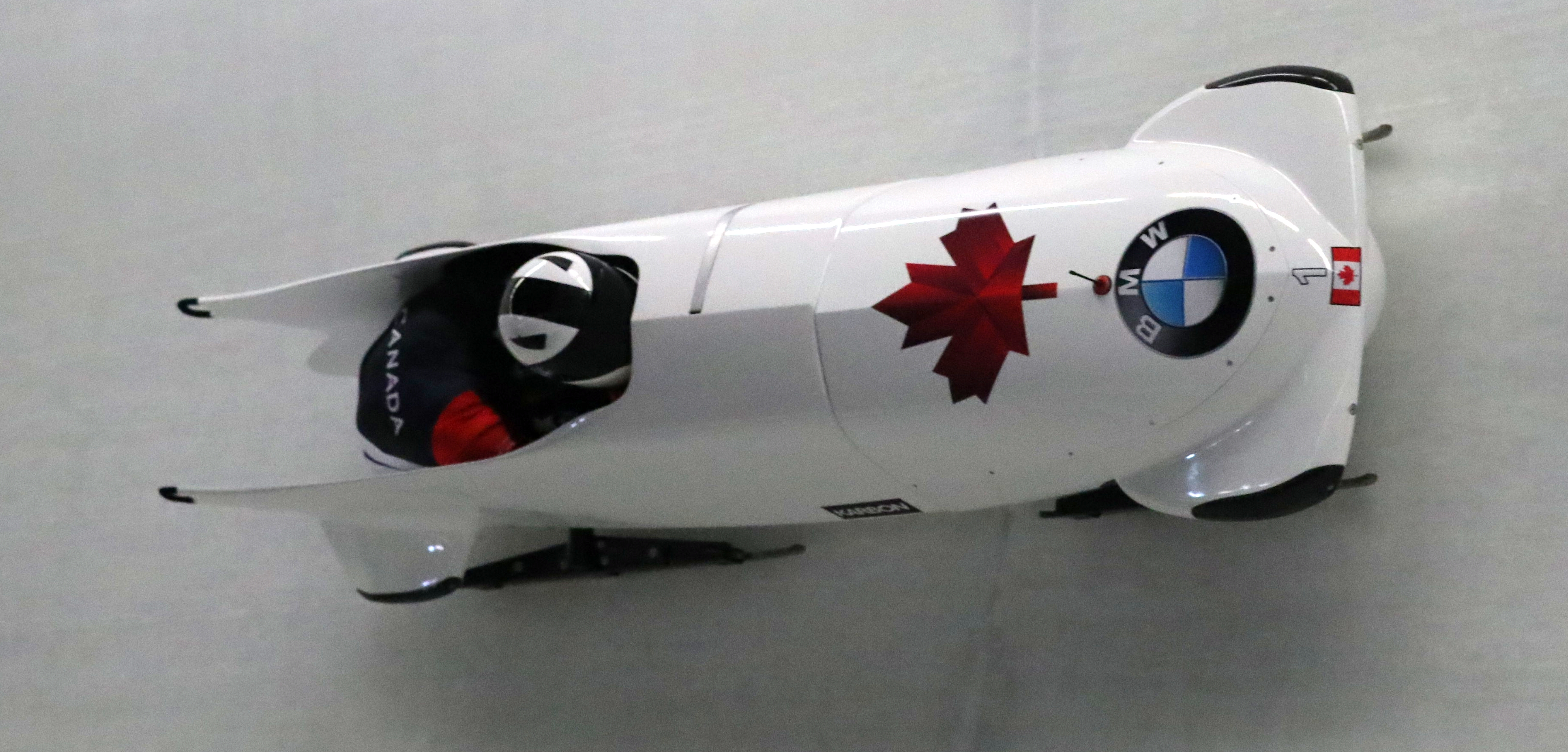 2-man Bobsleigh Men's World Cup race at the 2018/19 Bobsleigh World Cup in Altenberg